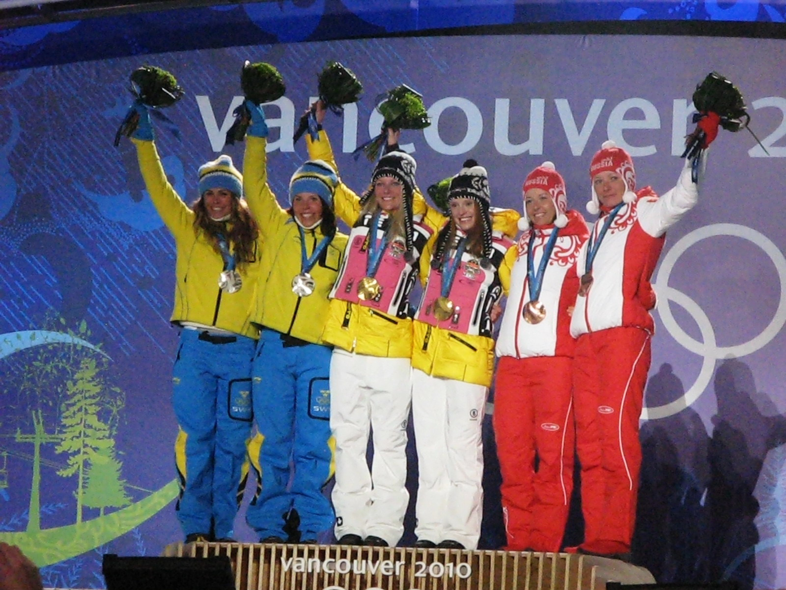 The medal ceremony for the women's team sprint at the 2010 Winter Olympics. Left to right: Sweden (silver), Germany (gold), Russia (bronze)